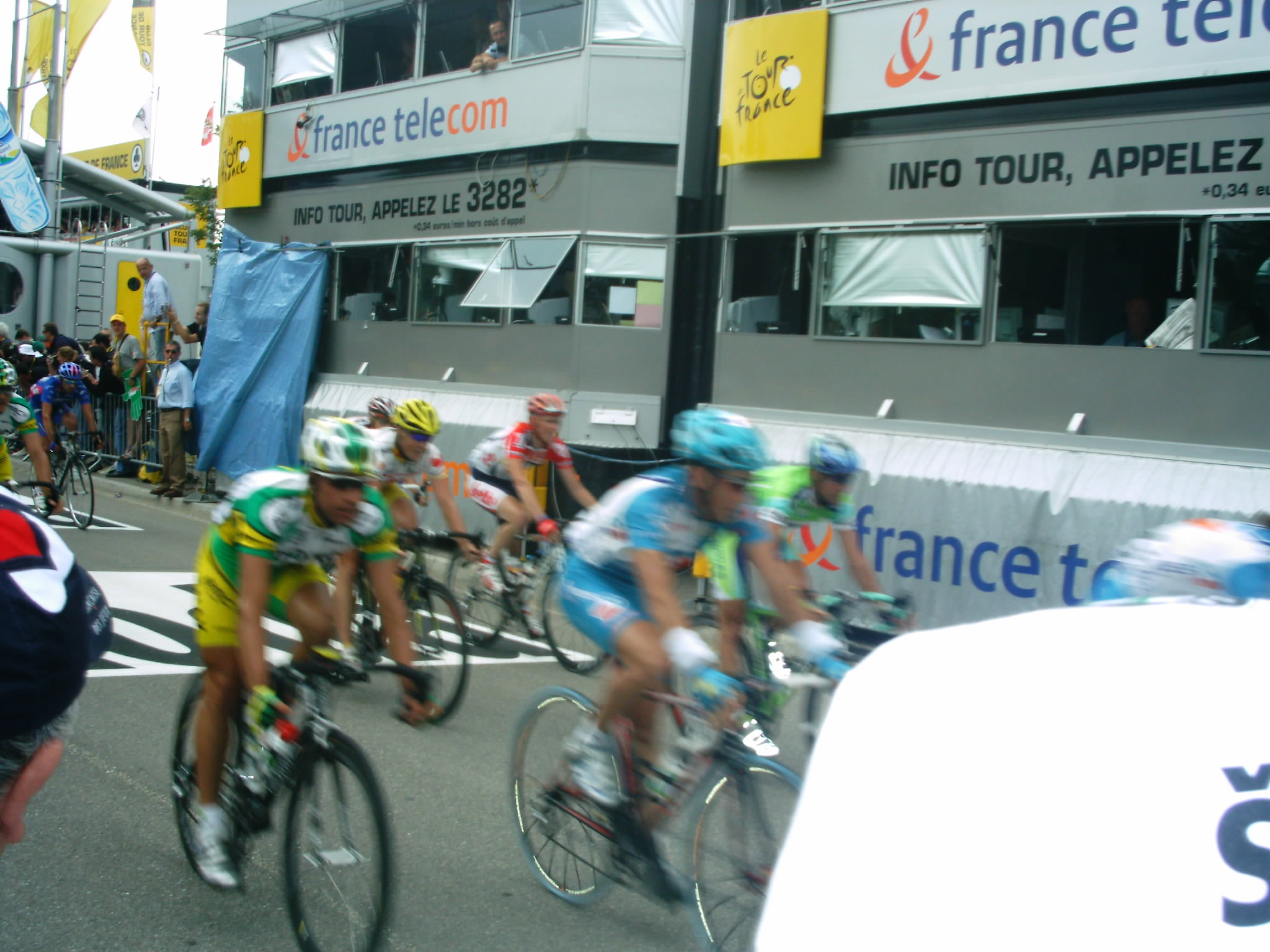 Finish Tour de France (Stage 9) ,2005